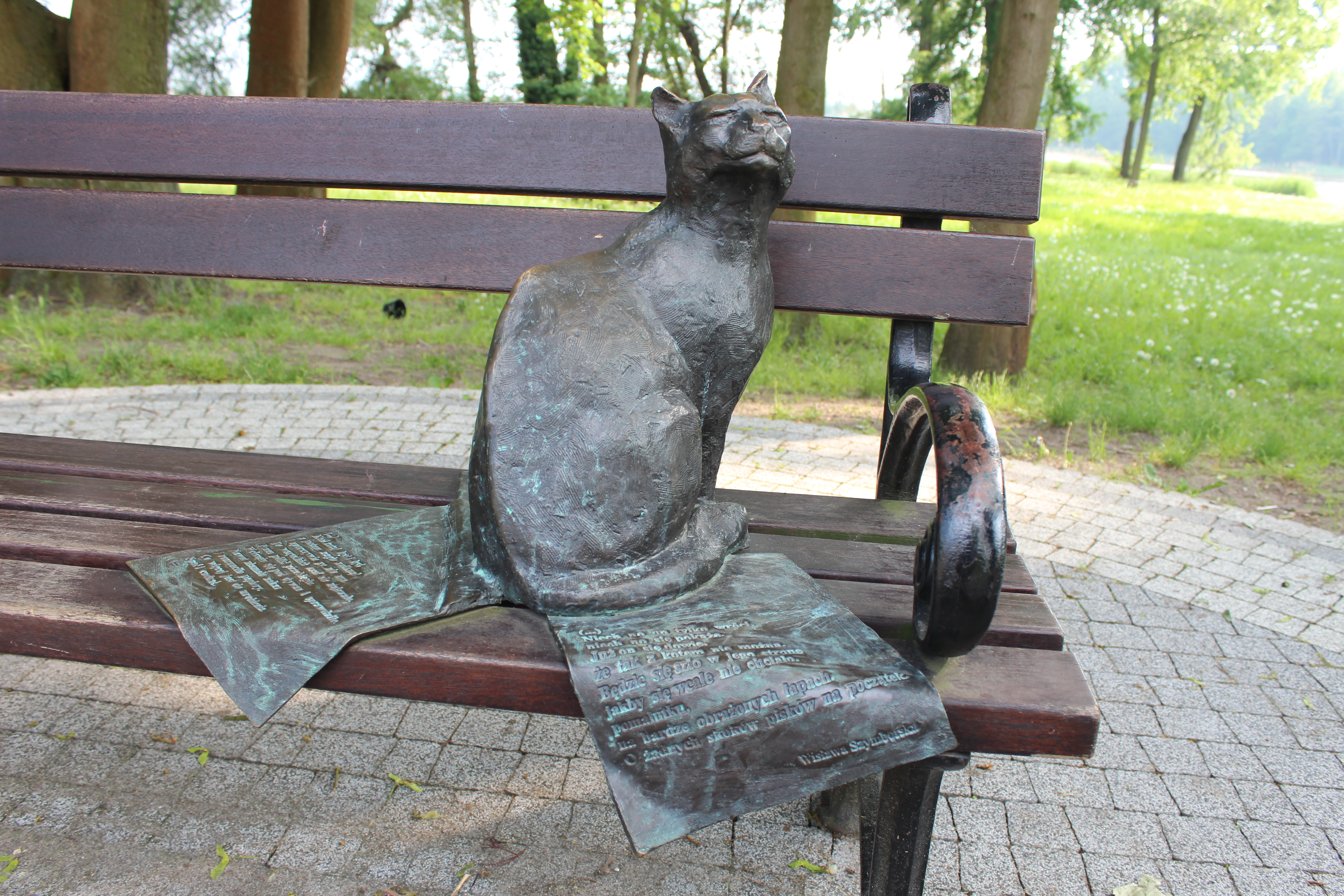 Wisława Szymborska Monument in Kórnik